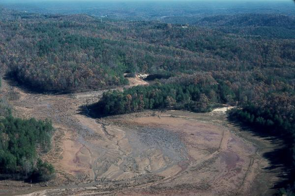 Aerial view of Kelly Barnes Lake area -- looking downstream, dam was near the center of the photograph.